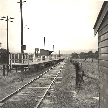 Oak Flats Railway Station Dated: June 1951 Digital ID: 17420_a014_a014000827 Rights: We'd love to hear from you if you use our photos. Many other photos in our collection are available to view and browse on our website using Photo Investigator.